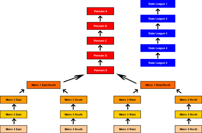 Diagram of the competition structure of Hockey Victoria for the Open Competition